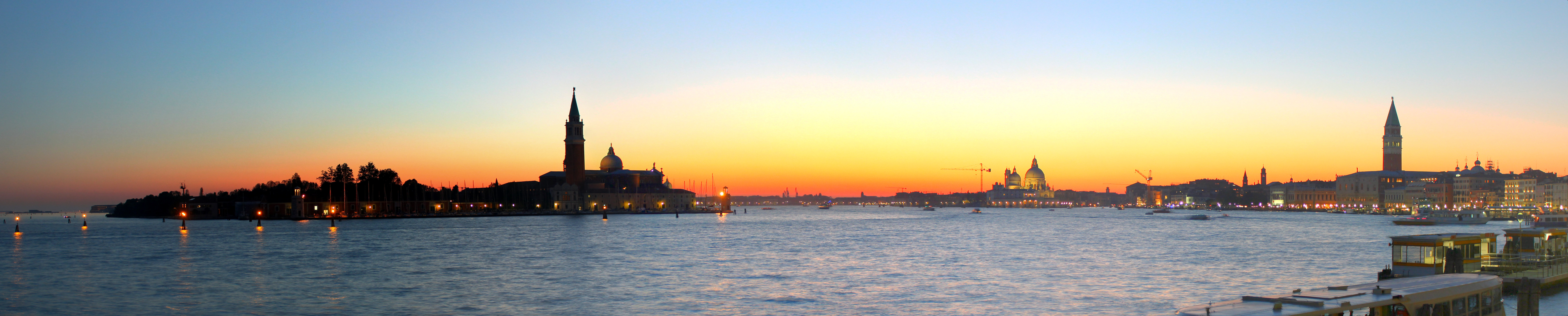 Night panorama of the island of San Giorgio Maggiore, Santa Maria della Salute and the tower bell of St. Mark, in Venice.